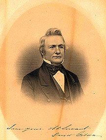 David Gibson, c 1850s (courtesy Graham Surveys).